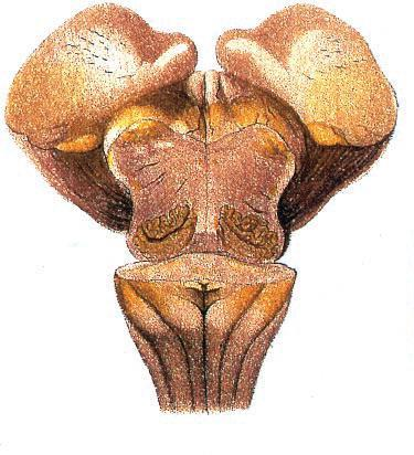 Color figure from the 1904 publication by Schmorl.